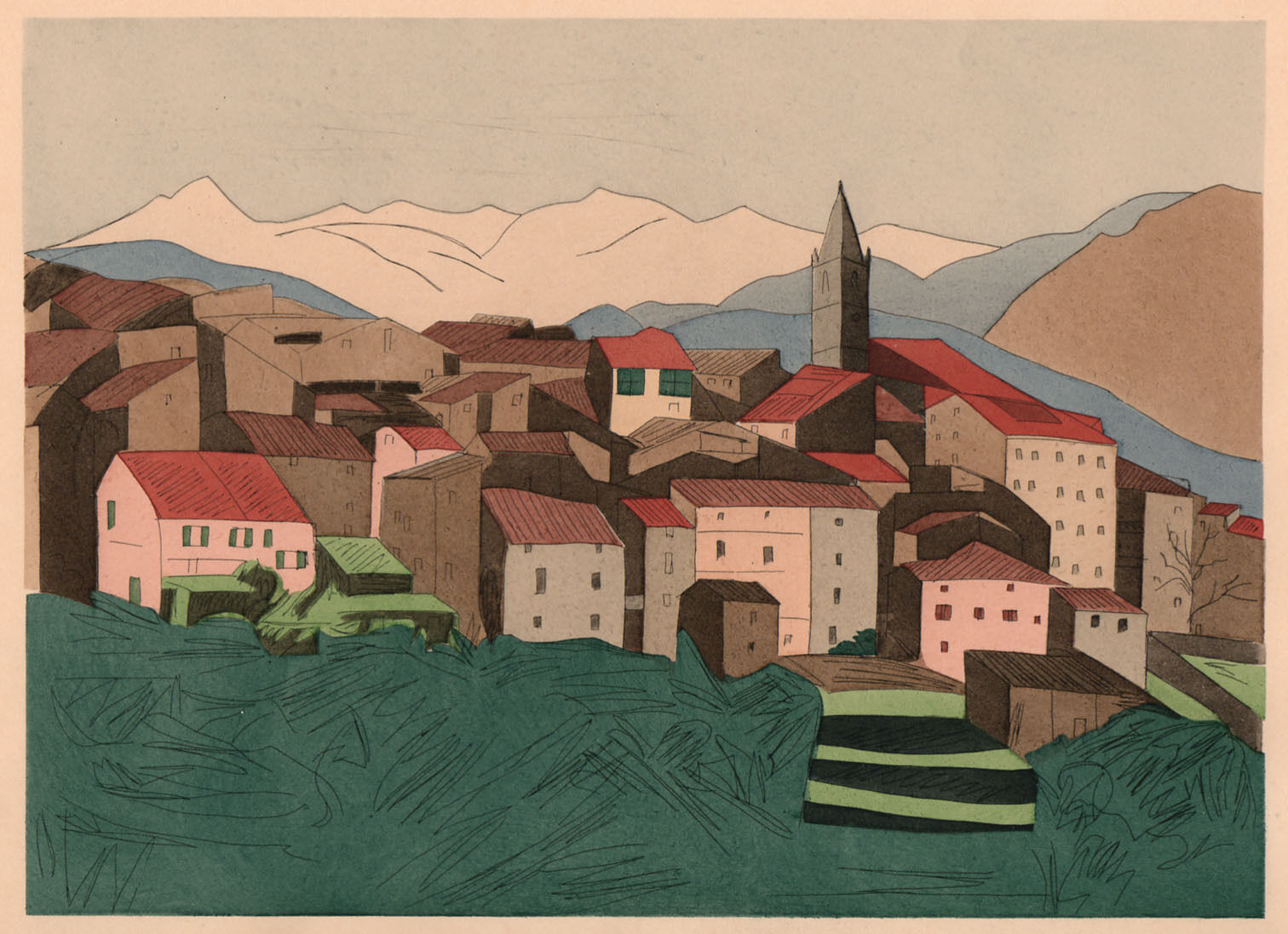 LE BROC, French Riviera Villages, aquatint by American woman artist Augusta Rathbone (November 30, 1897-March 19, 1990)